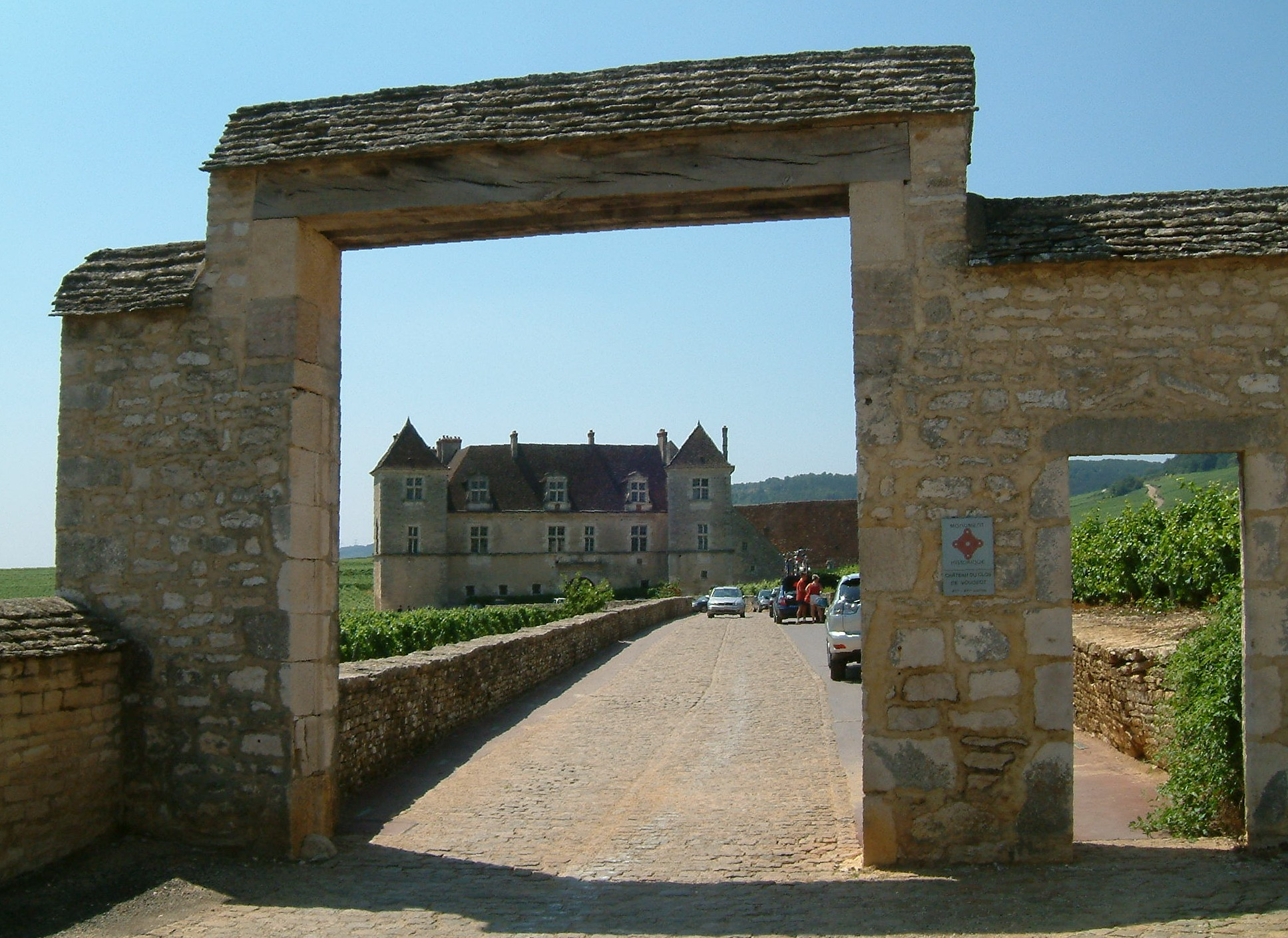 Clos de Vougeot, Vougeot, Burgundy, FRANCE.